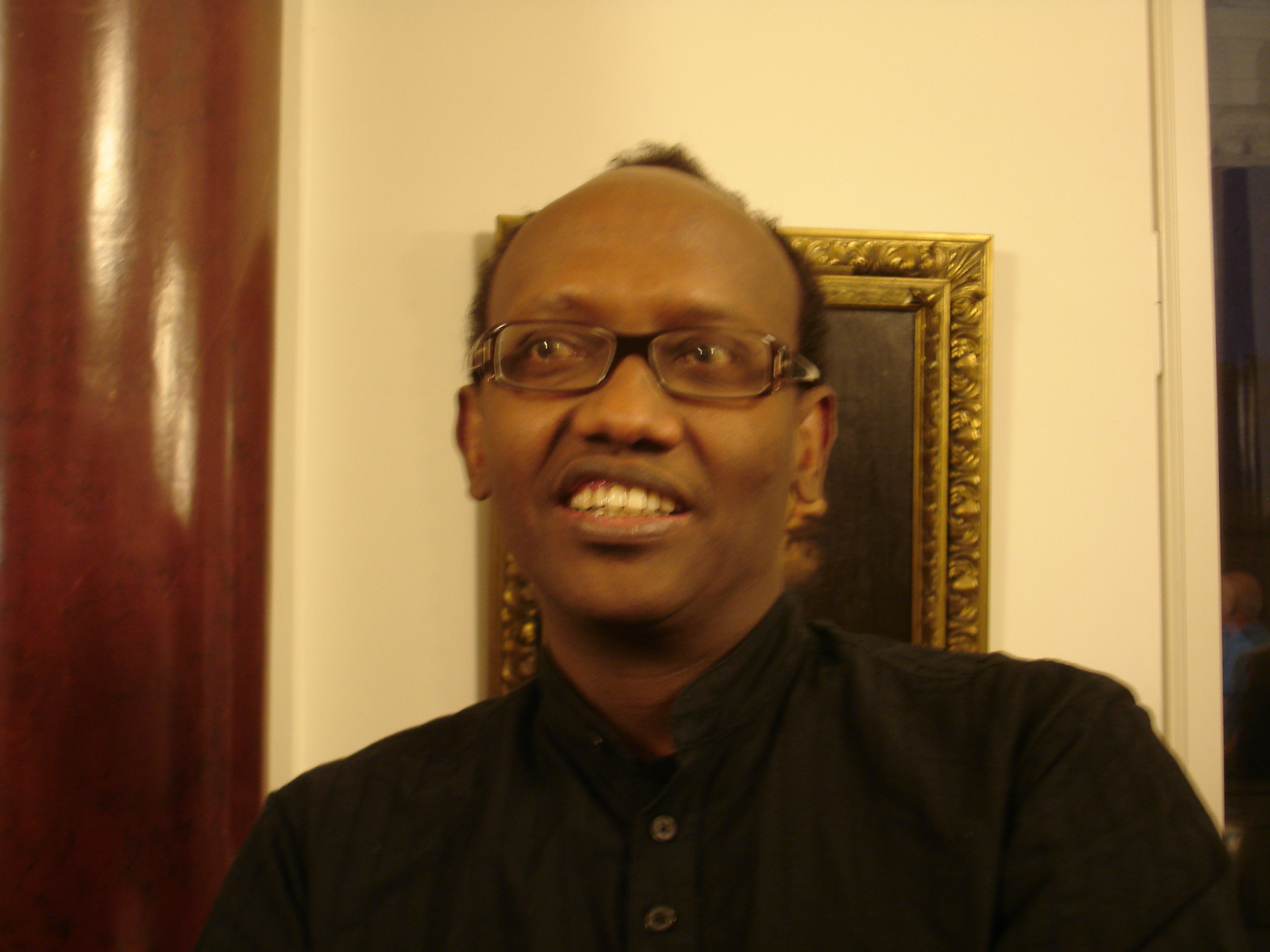 Djiboutian author Abdourahman Waberi